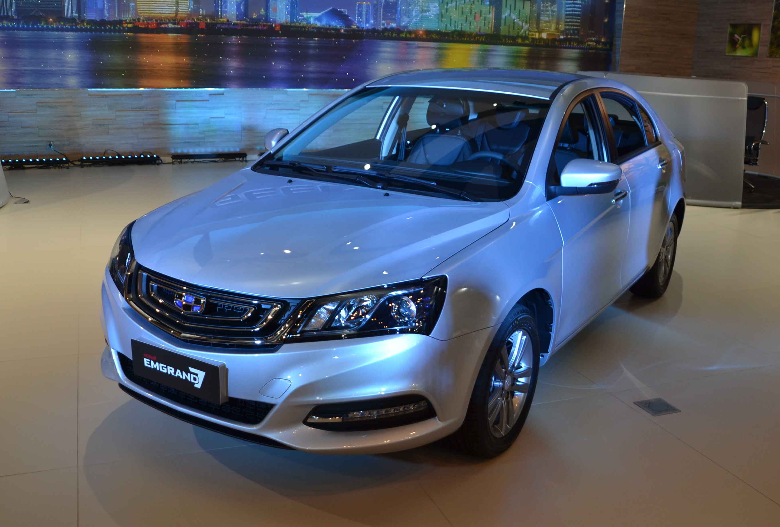 Geely Emgrand 7 for the Russian market, 2018